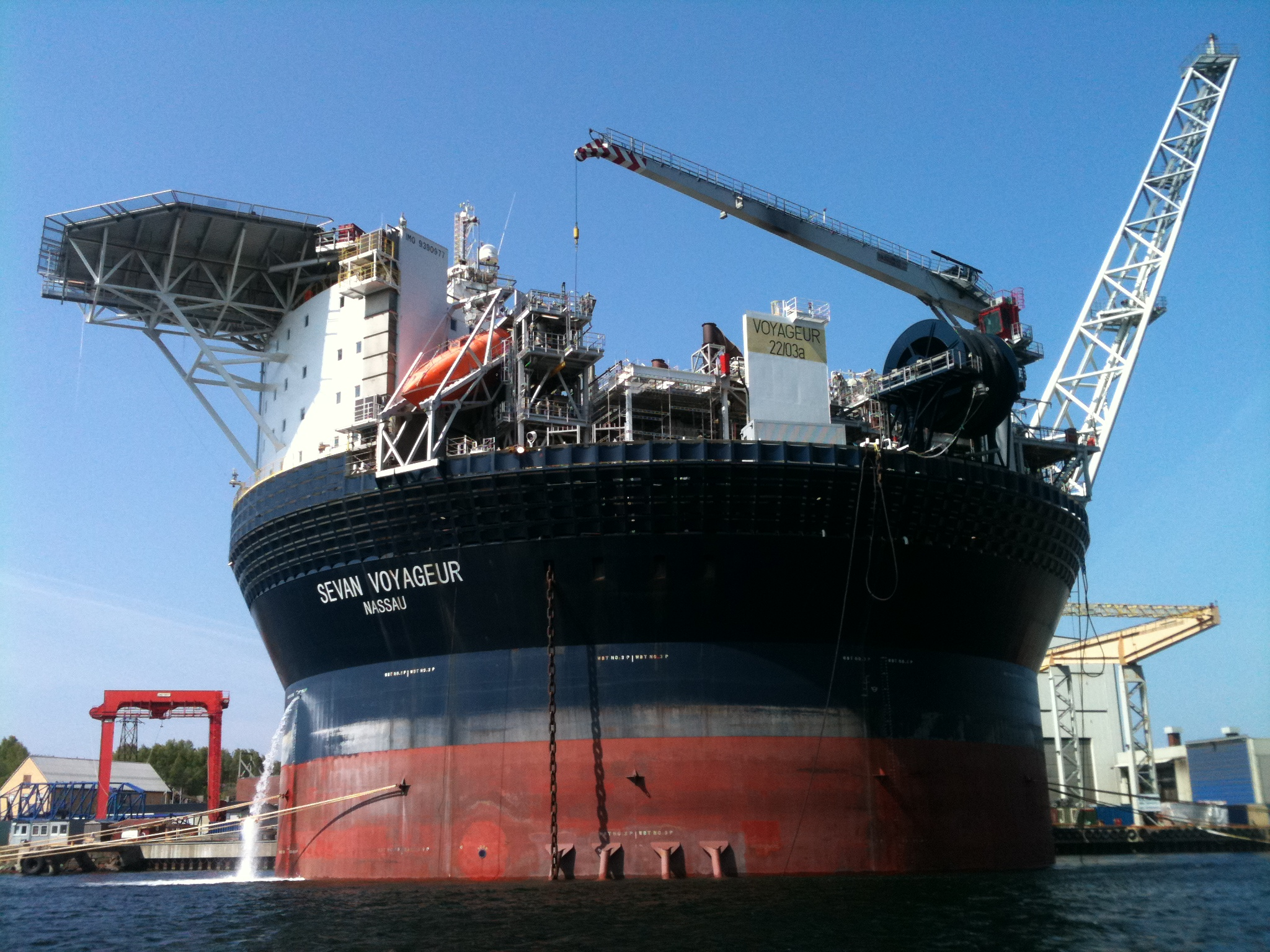 A Sevan FPSO model 300 built in 2007-08 at Yantai Raffels (hull), Keppel Verolme (topside integration) and Nymo (gas compression plant). Here nearly complete at the Nymo yard at Eydehavn, Arendal, Norway. The Sevan Voyageur homepage